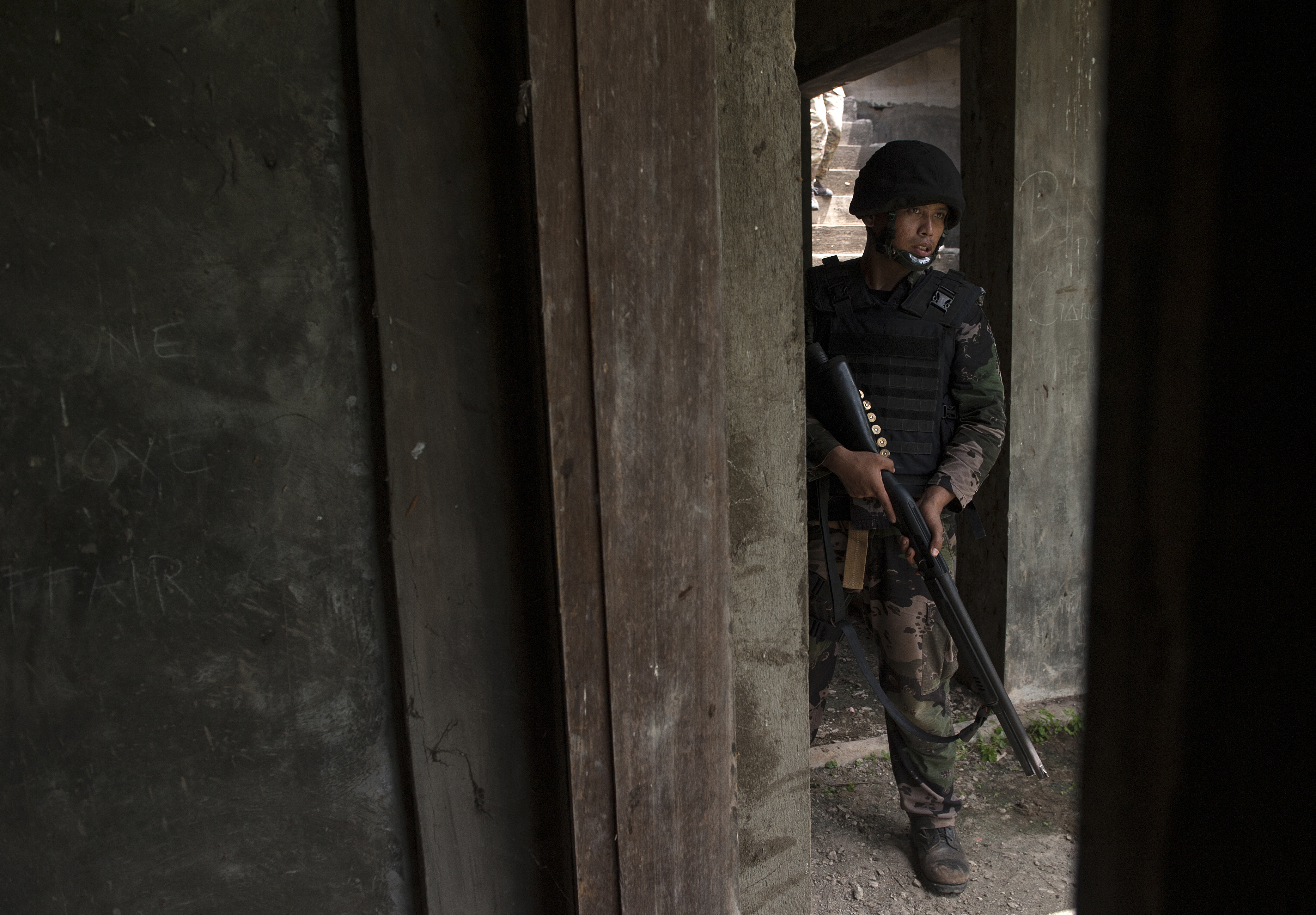 A Philippine National Police (PNP) Maritime Group member waits to clear rooms of an abandoned hotel during a direct action training scenario as part of the Joint Interagency Task Force (JIATF) West exercise Aug 6, 2014, in Puerto Princesa, Philippines. PNP police officers received training from U.S. Army, Operational Detachment-Alpha Special Forces operators to increase their capabilities in support of counterdrug efforts during JIATF West. The mission of JIATF West is to reduce threats in the Asia-Pacific by combating drug related transnational organized crime. The work of JIATF West supports counterdrug efforts of partner nation law enforcement and military units with law enforcement or border security responsibilities. (U.S. Air Force photo by Staff Sgt. Christopher Hubenthal/RELEASED)